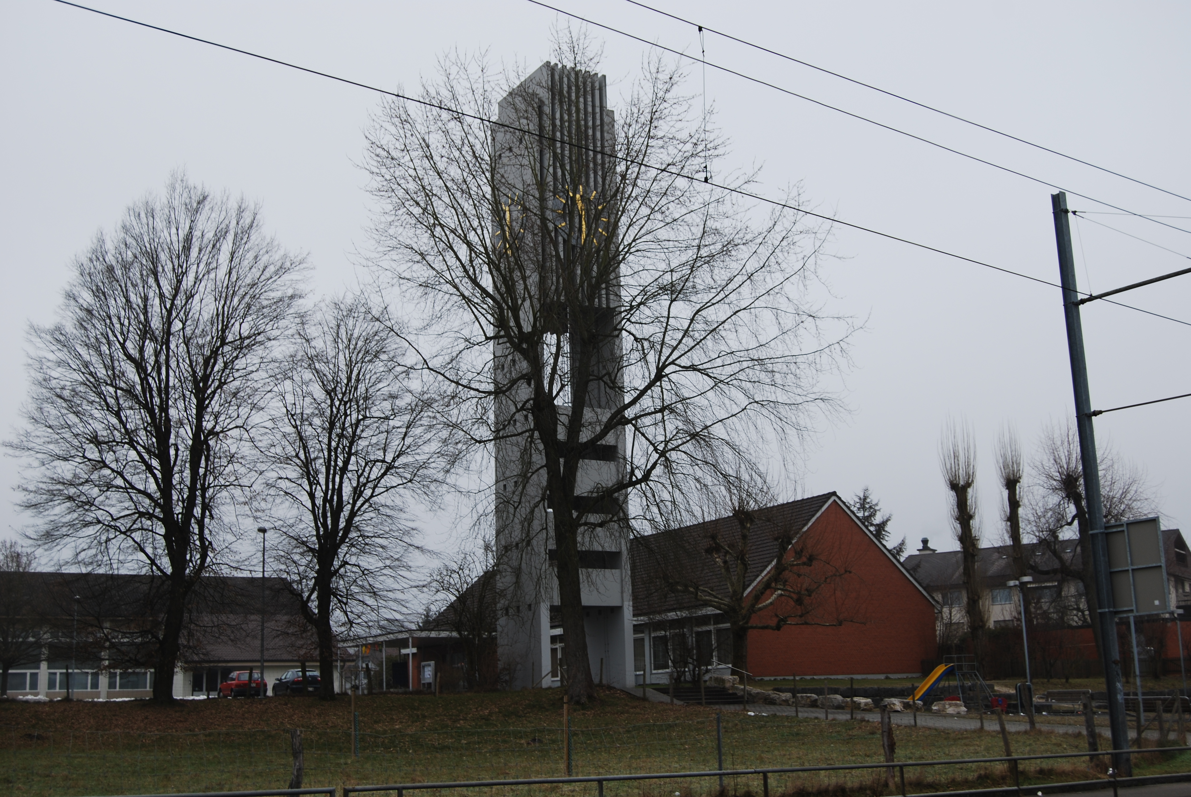 Church of Unterentfelden, canton of Aargau, Switzerland